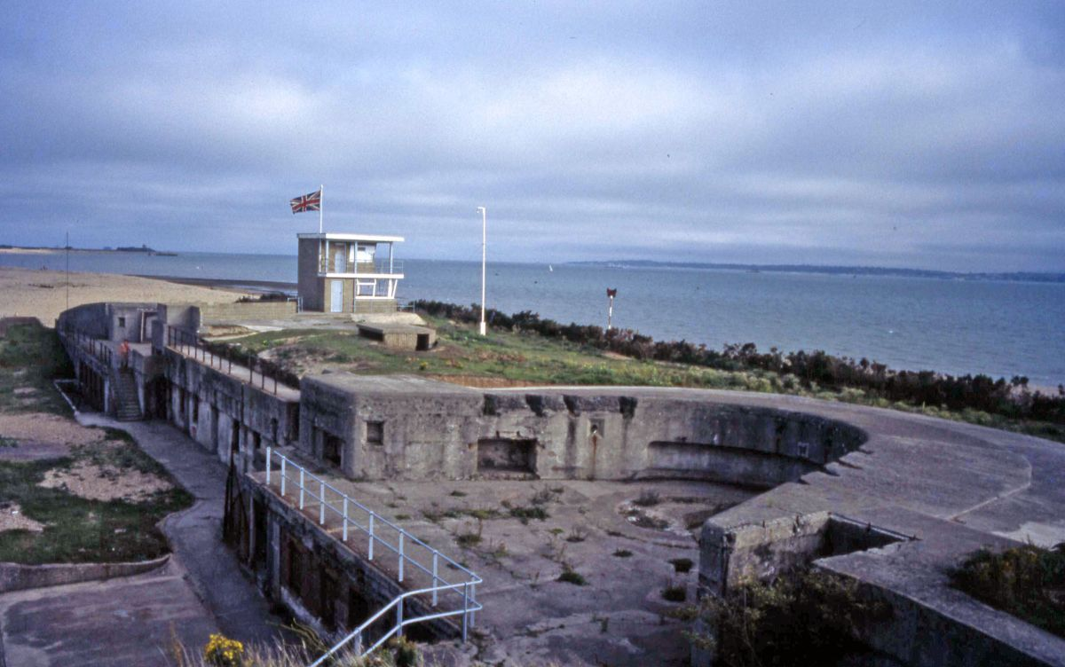 Browndown Battery: Showing the right 9.2inch B.L. Emplacement and the magazines beneath